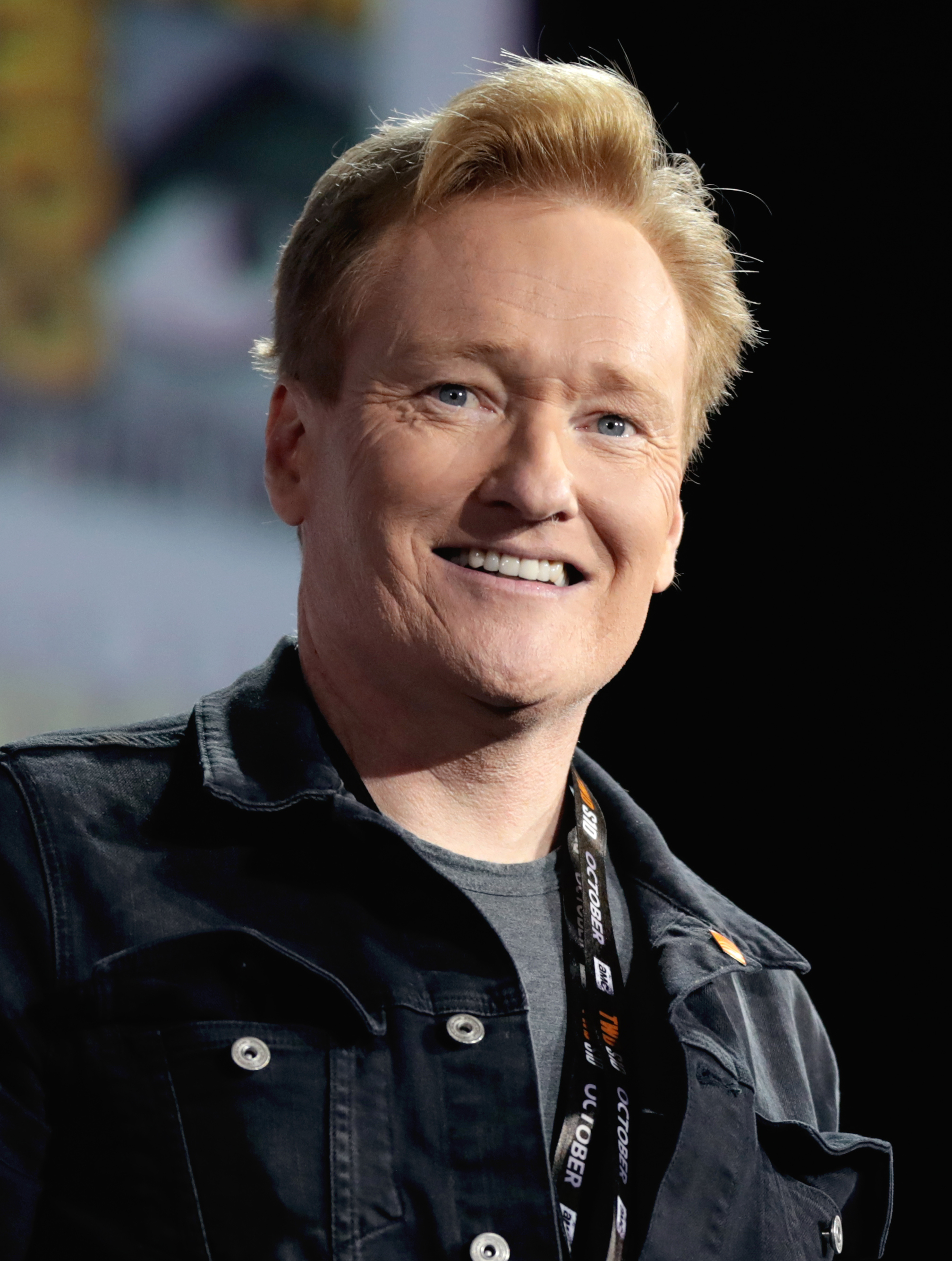 Conan O'Brien speaking at the 2019 San Diego Comic-Con International in San Diego, California.